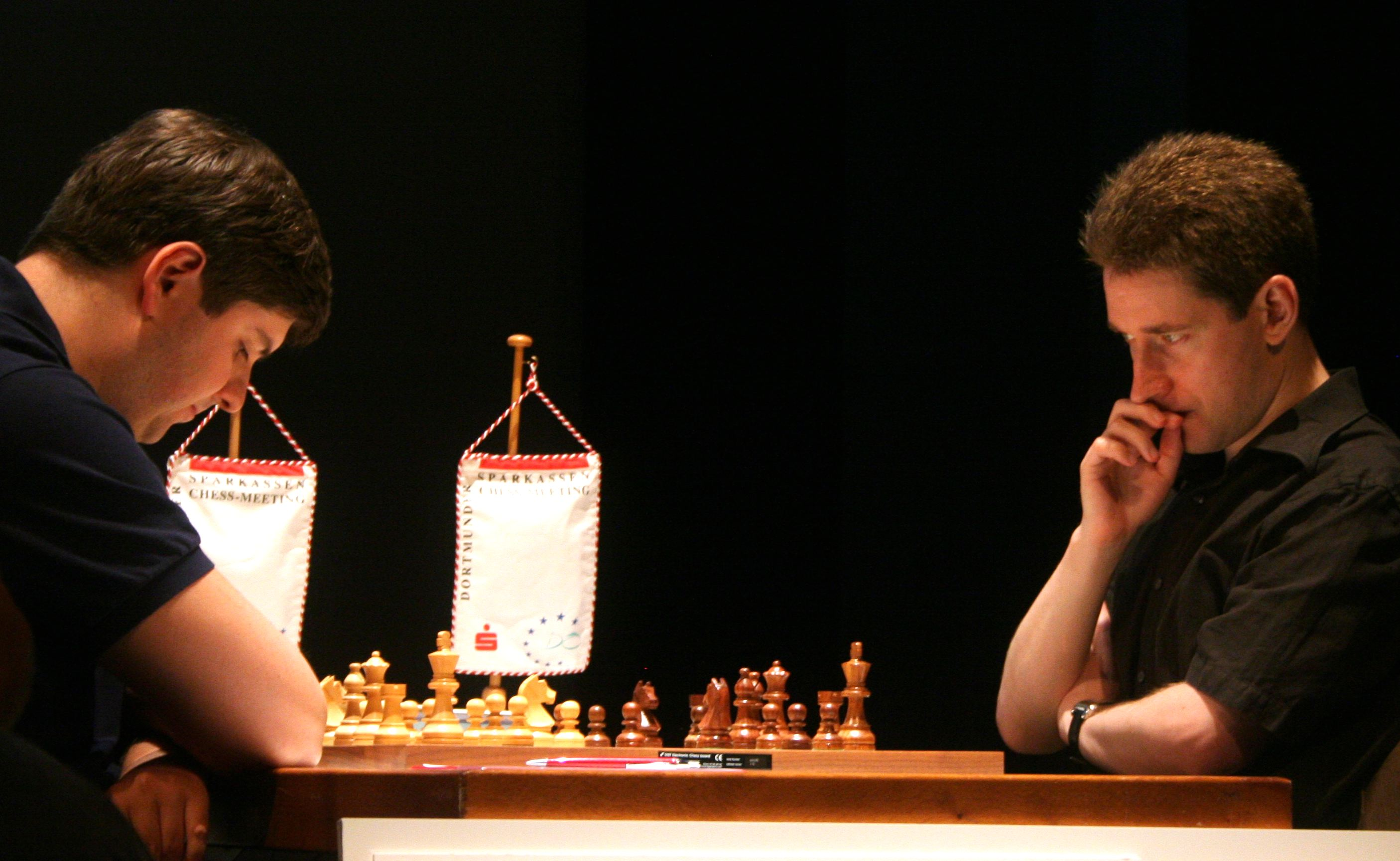 Svidler — Adams – Dortmund. Sparkassen Chess Meeting 2006